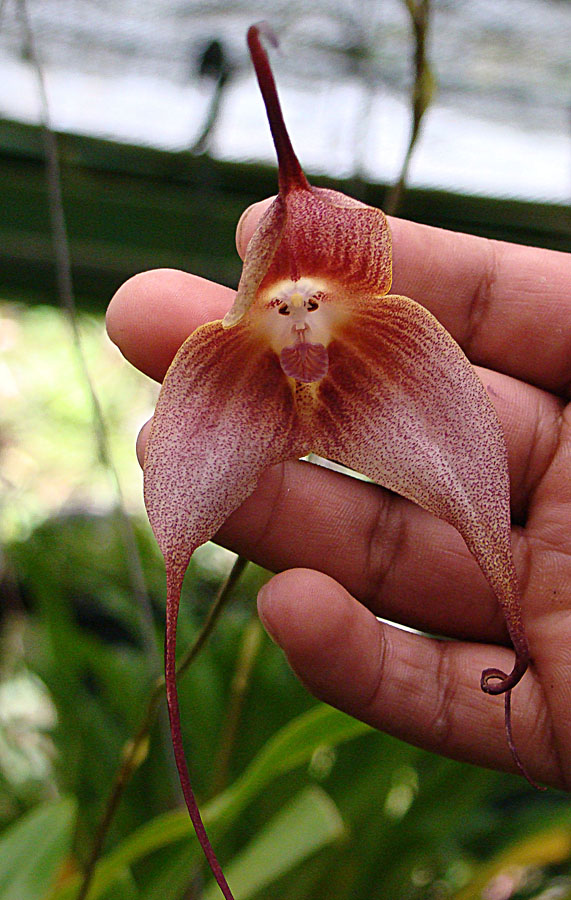 A cultivar from a garden near Volcancito, western Panama. The species is native to Ecuador and Peru. In context at